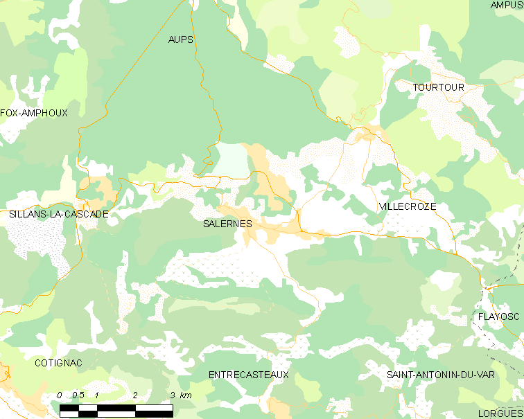 Map of French municipality Salernes